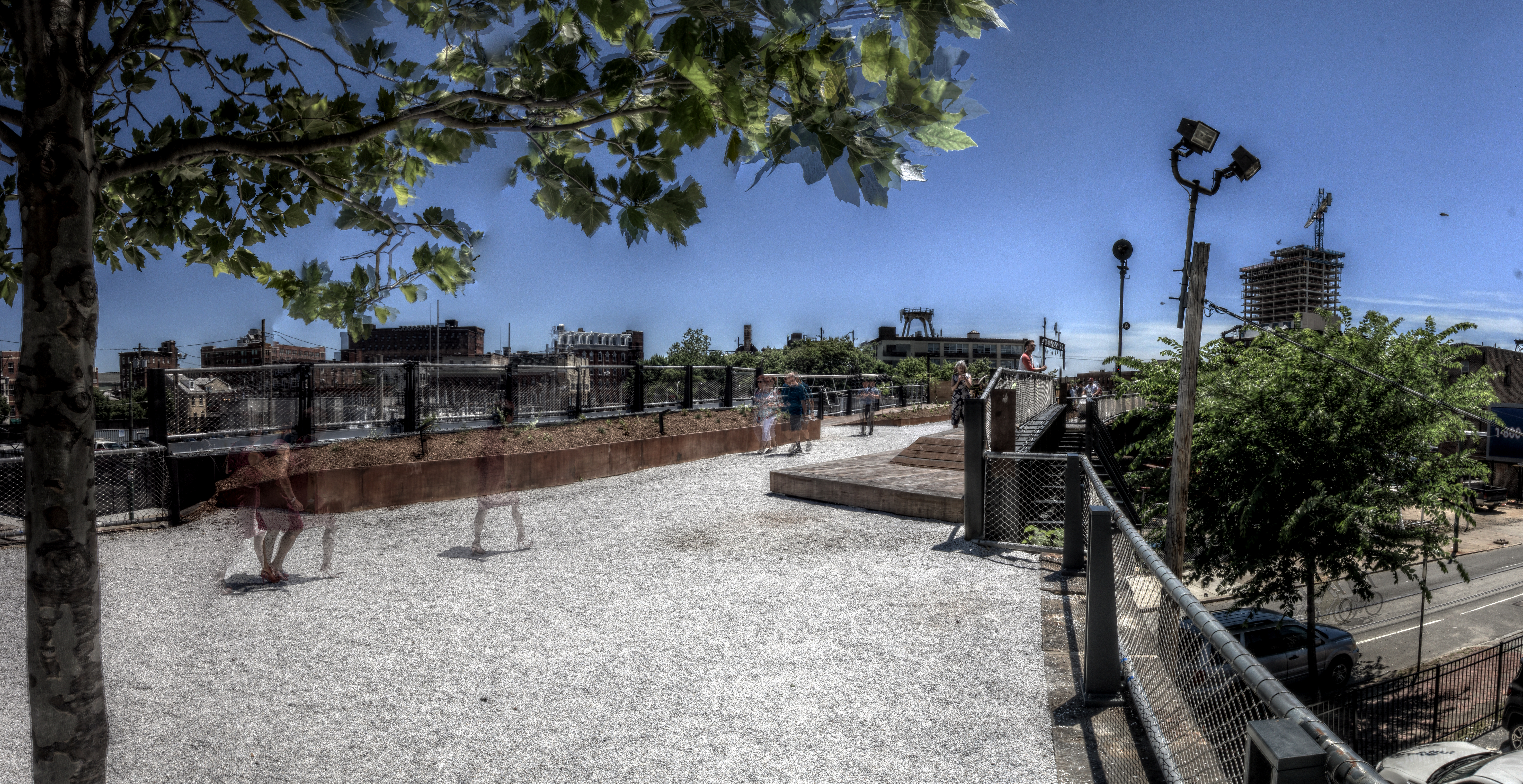 View of Phase I of The Rail Park from just west of the 12th Street overpass.